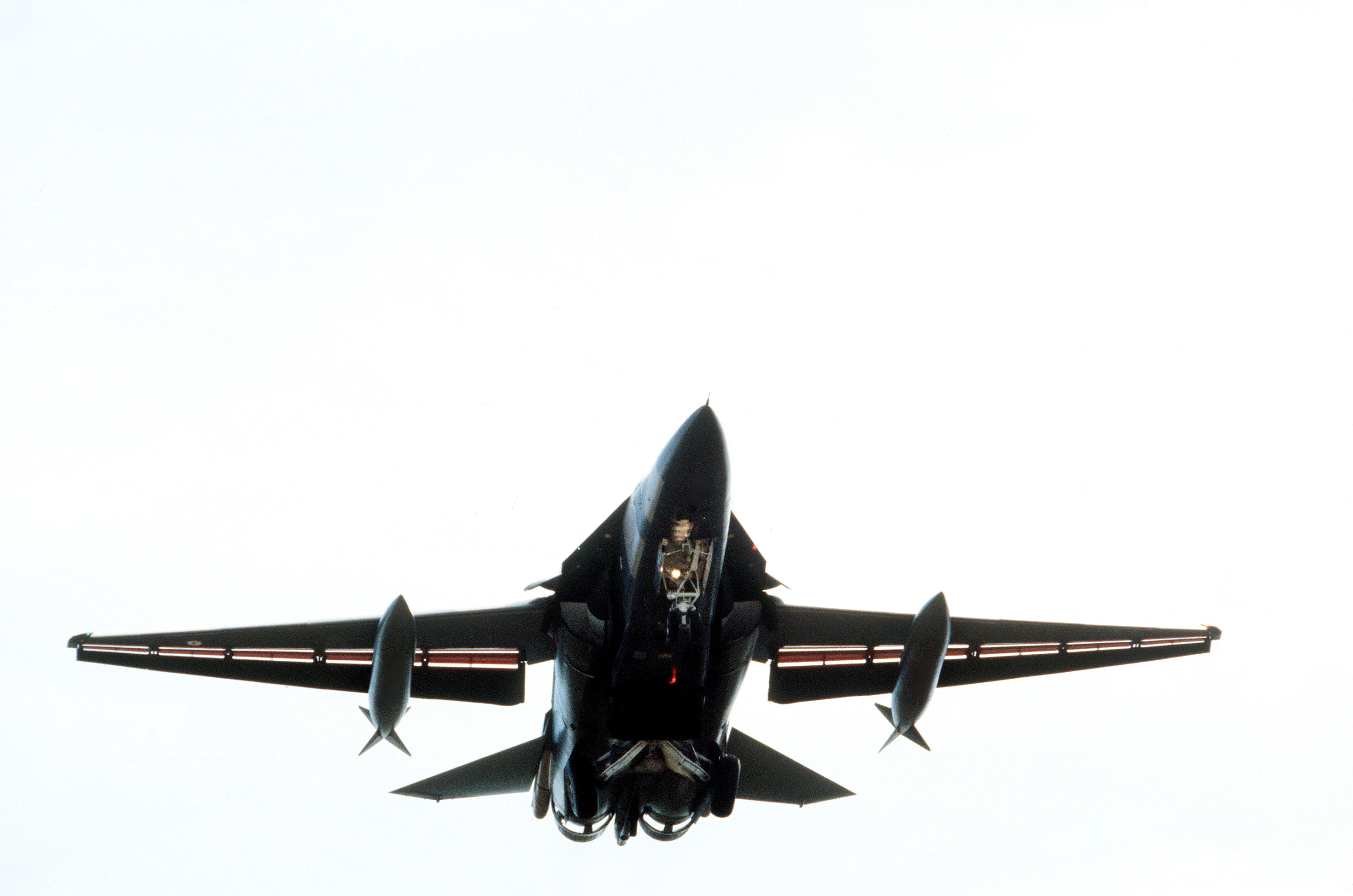 Front underside view of a Royal Australian Air Force (RAAF) F-111 aircraft as it takes off from RAAF Base Darwin during the joint Australia/New Zealand/US Exercise PITCH BLACK '84.